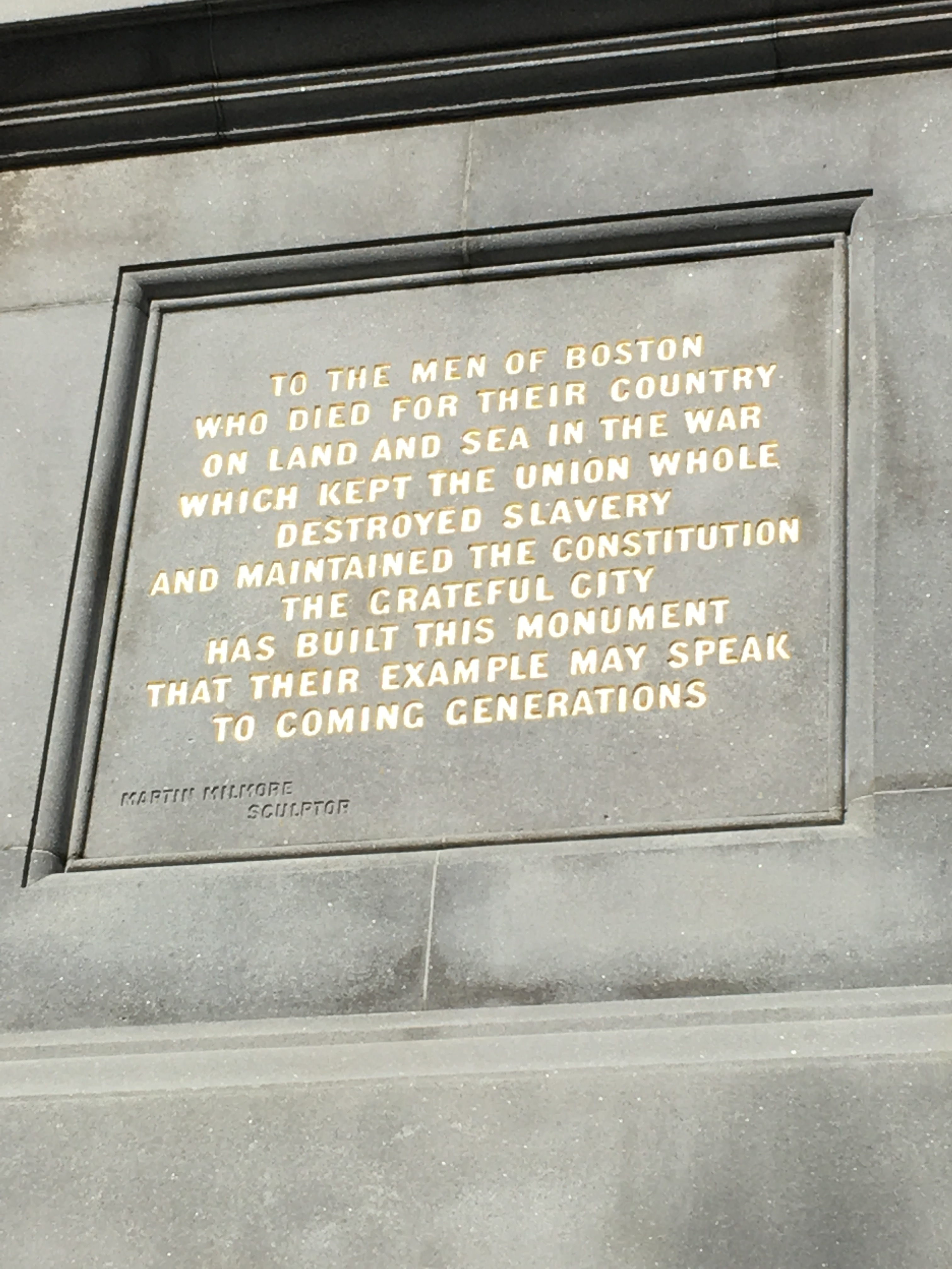 Soldiers and Sailors Monument (Boston)